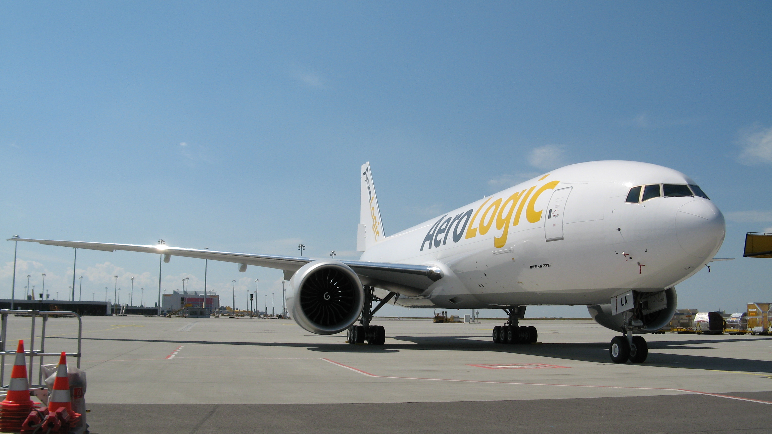 Boeing 777-200F (D-AALA) of AeroLogic on the 2nd of June, 2009 at Leipzig/Halle Airport, the first aircraft of this model with an operation approval of the Federal Office for Civil Aviation of Germany